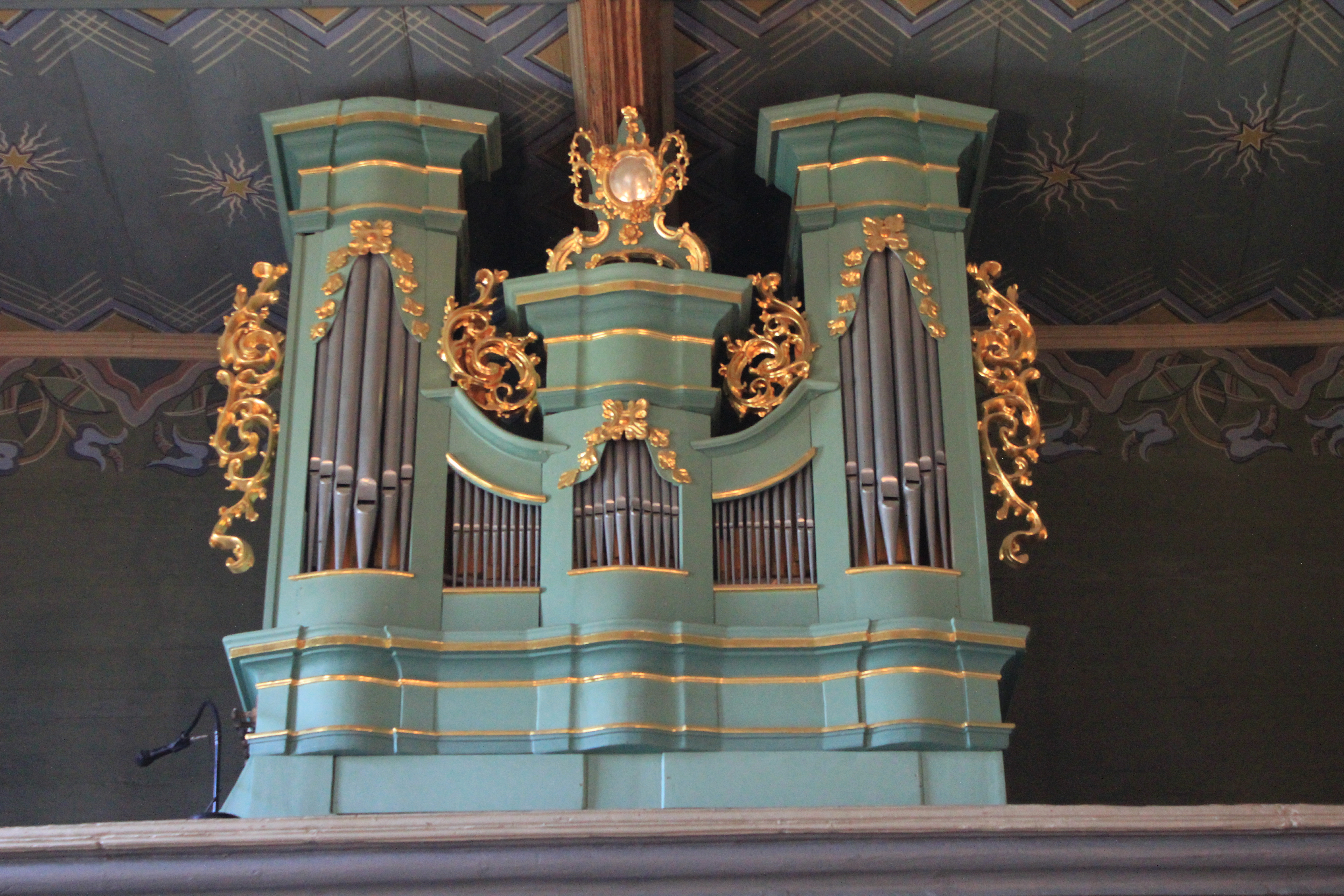 Organ